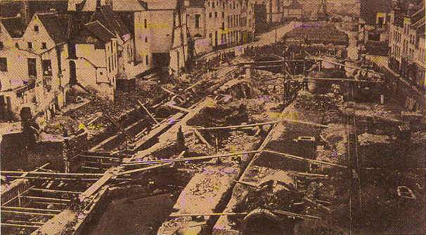 Construction to cover the Senne (Zenne) river. Ca. 1870.